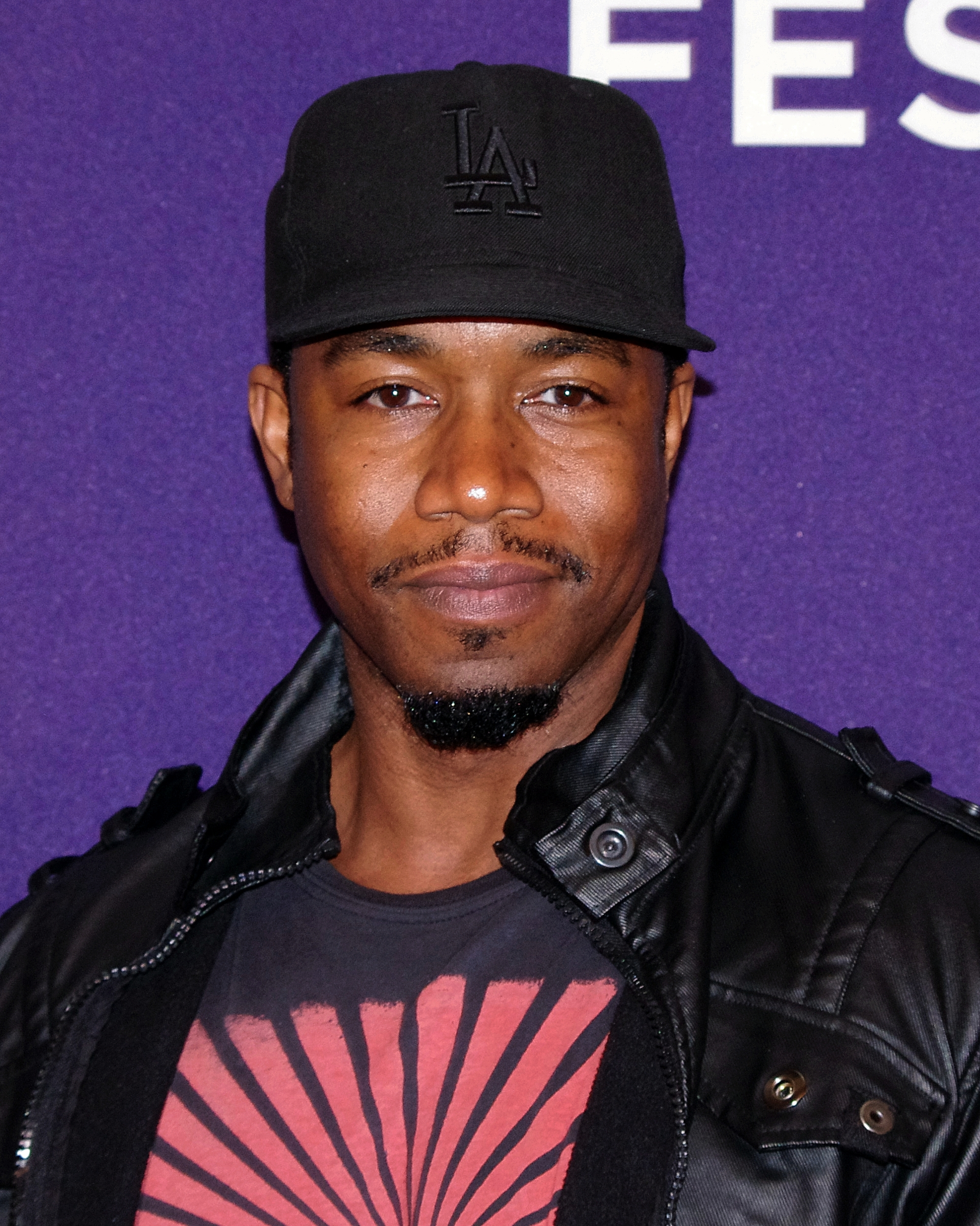 Michael Jai White at the 2012 Tribeca Film Festival premiere of Supporting Characters.